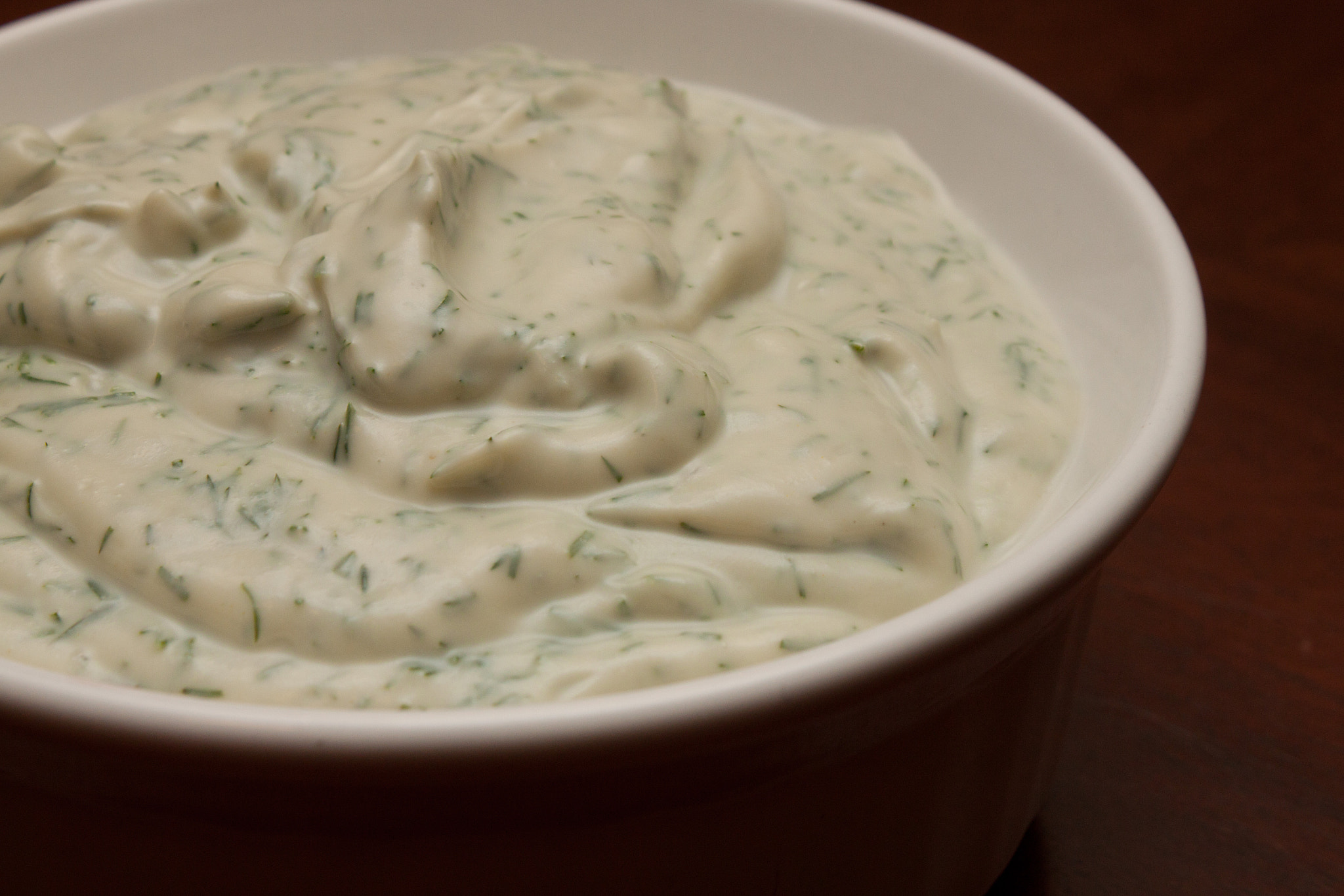 500px provided description: Horseradish And Dill Sour Cream [#Food ,#veganomnom]